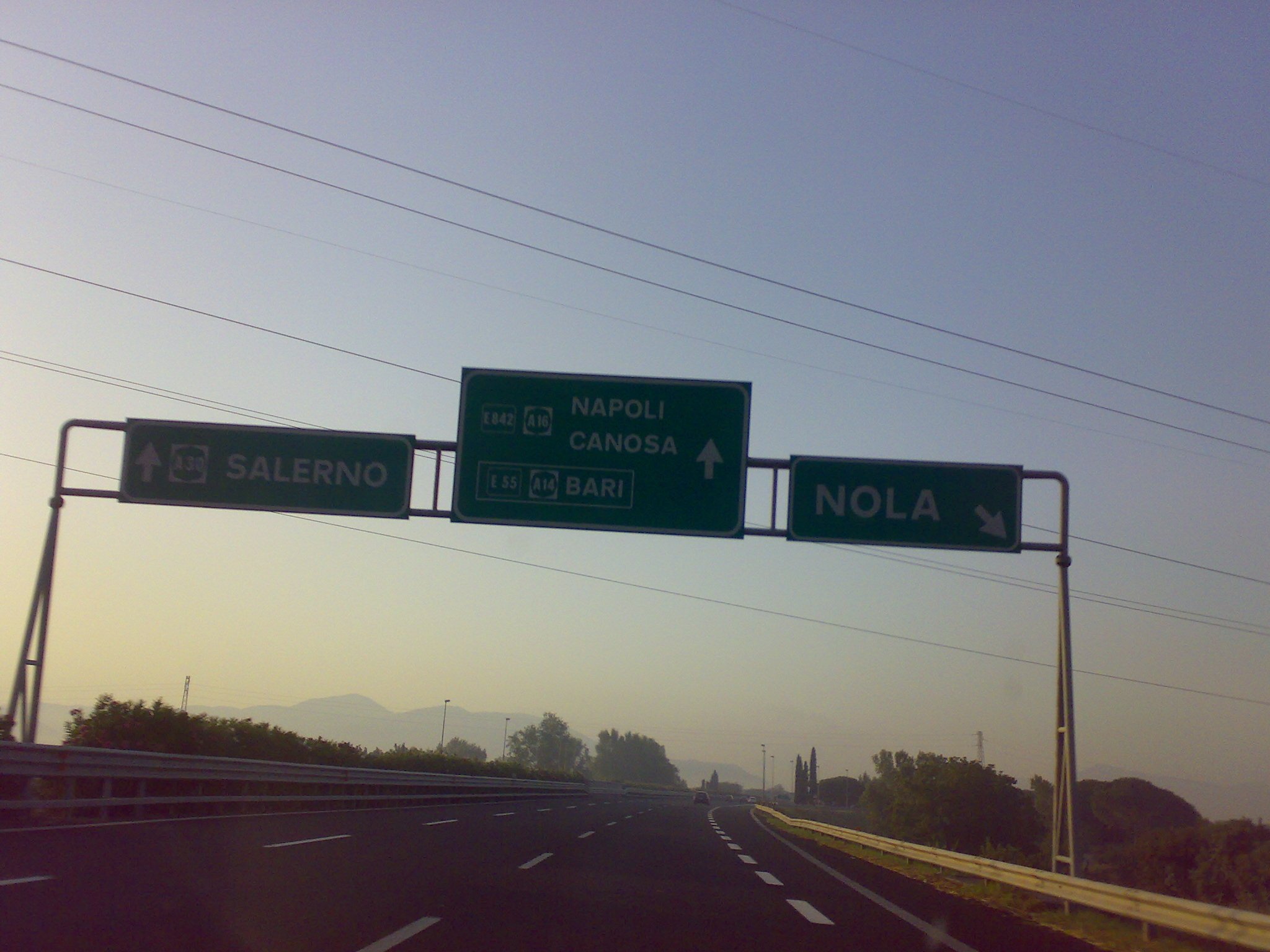 Uscita Nola